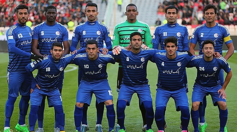 Esteghlal Khuzestan team photo